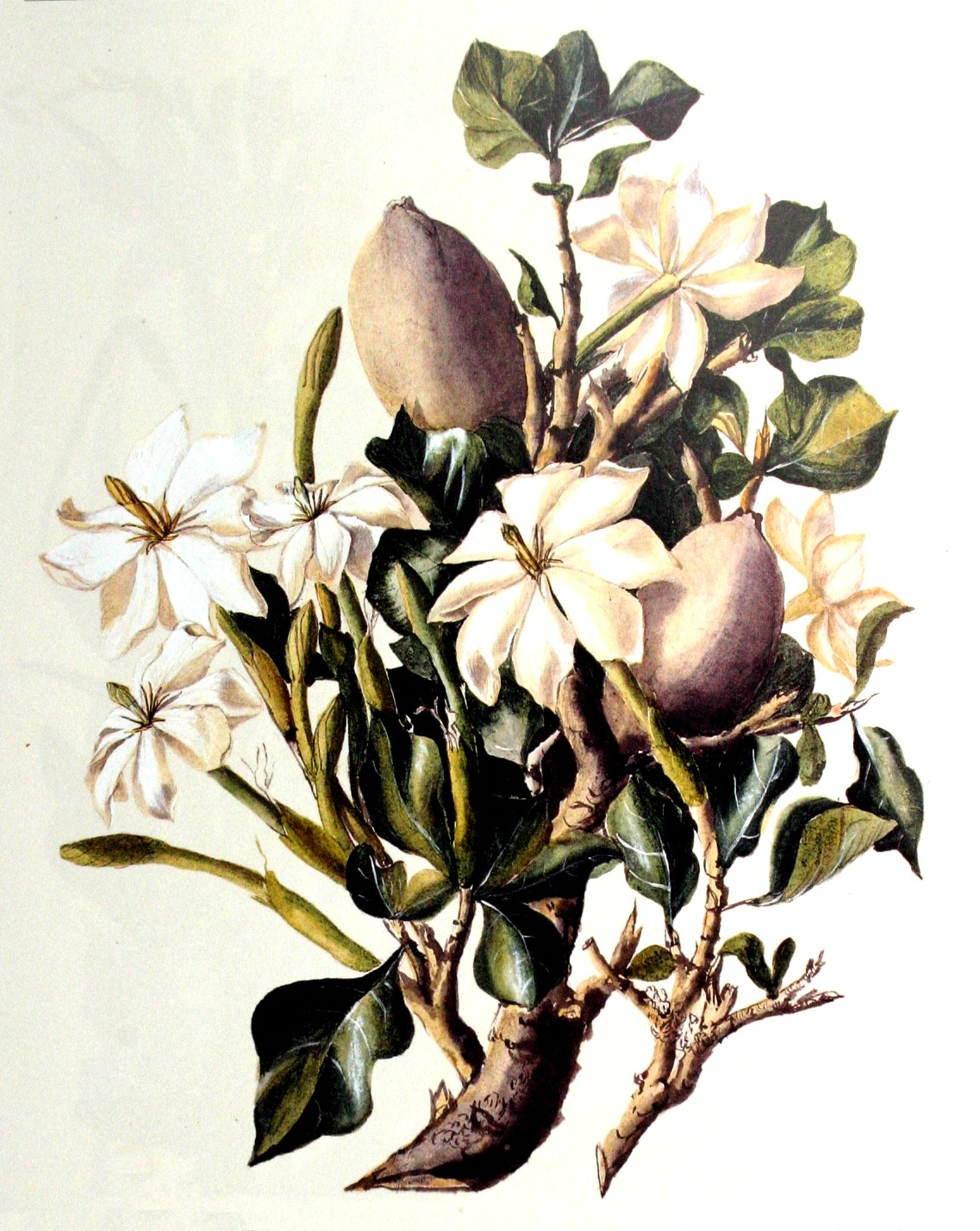 Gardenia thunbergia L.f. - Gouache and watercolour